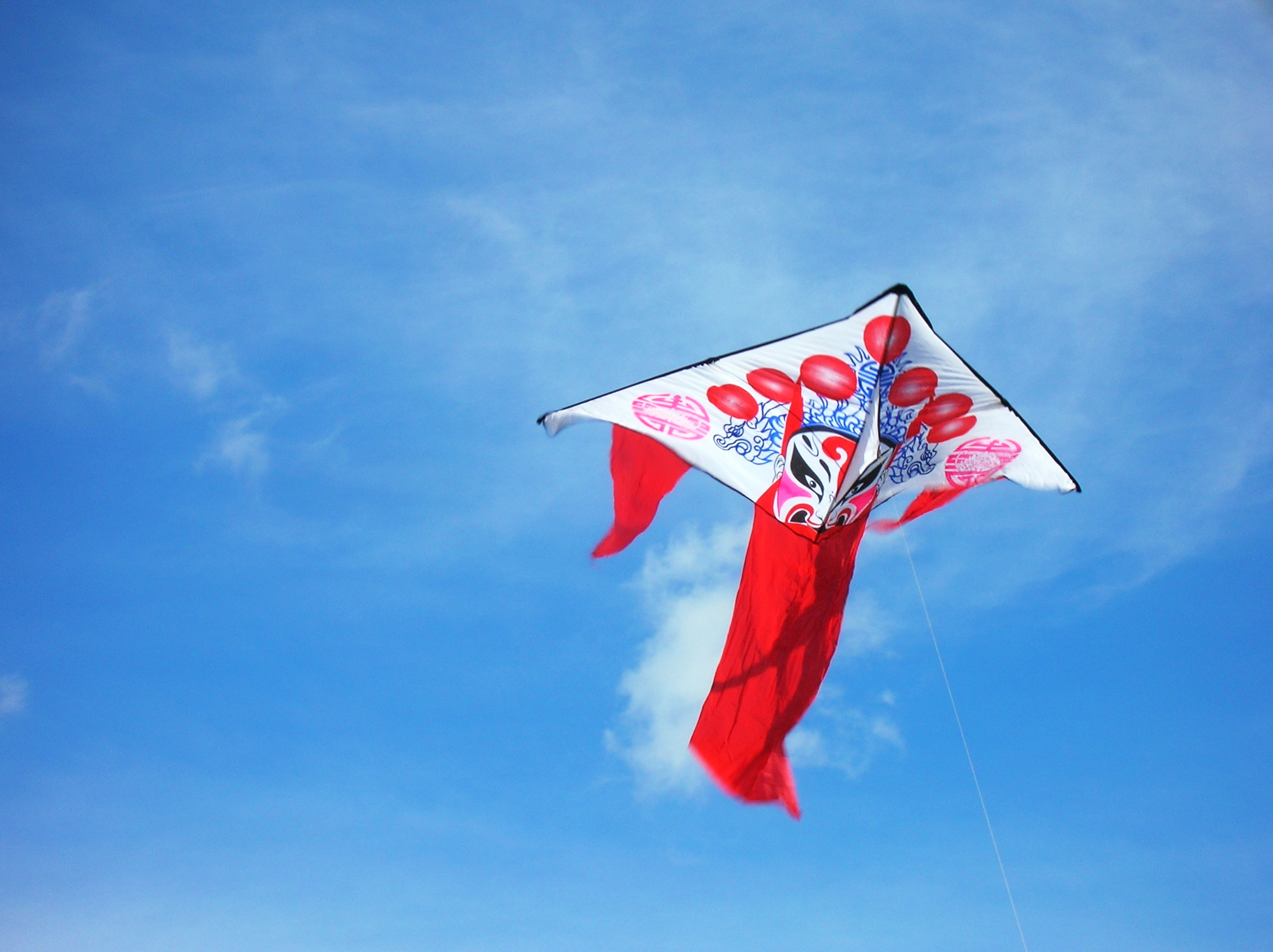 A Chinese kite in flight above Portsdown Hill, Portsmouth, Hampshire, UK.